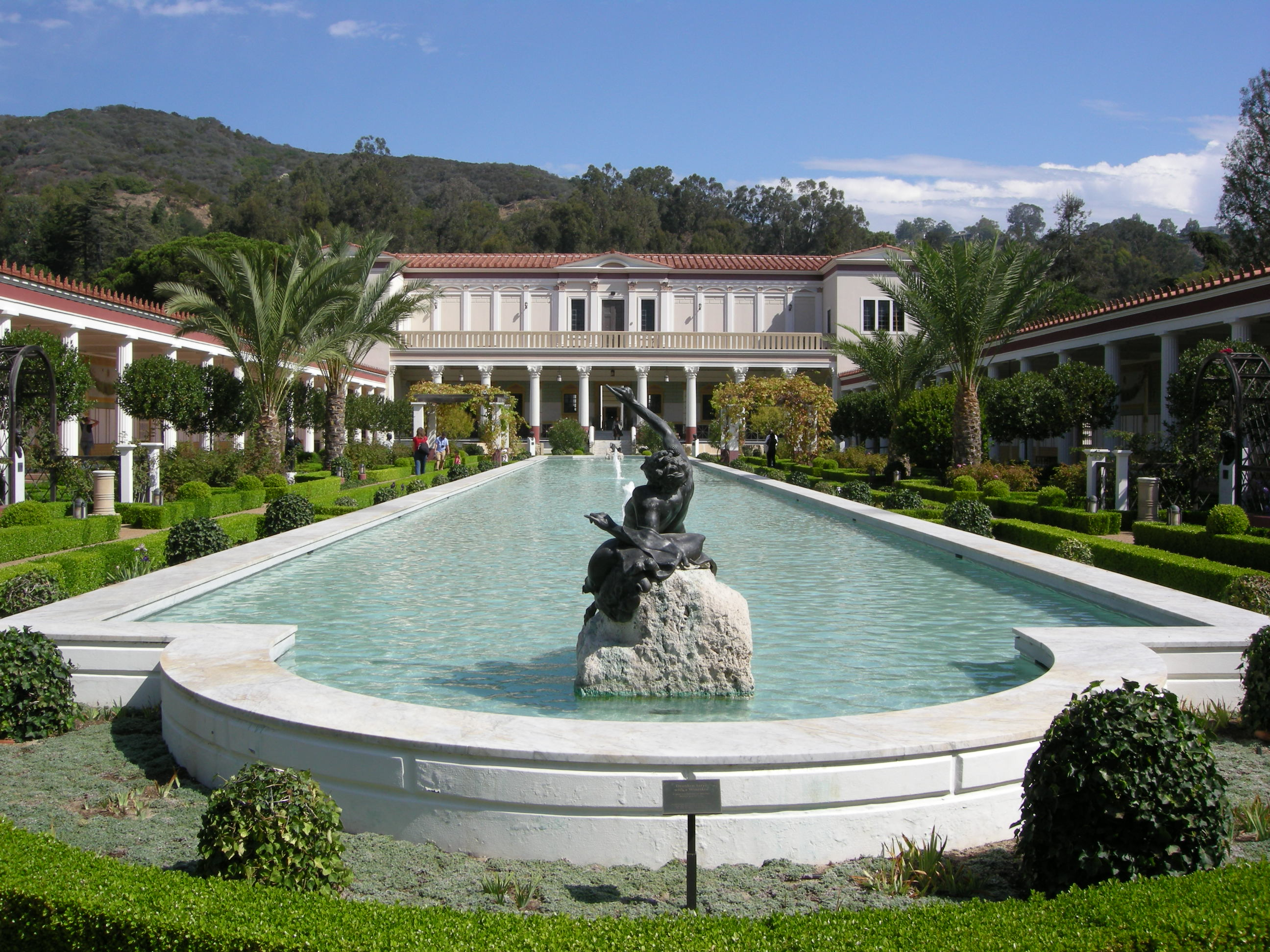 The outer Peristyle Garden of the Getty Villa Roman gardens, Los Angeles.